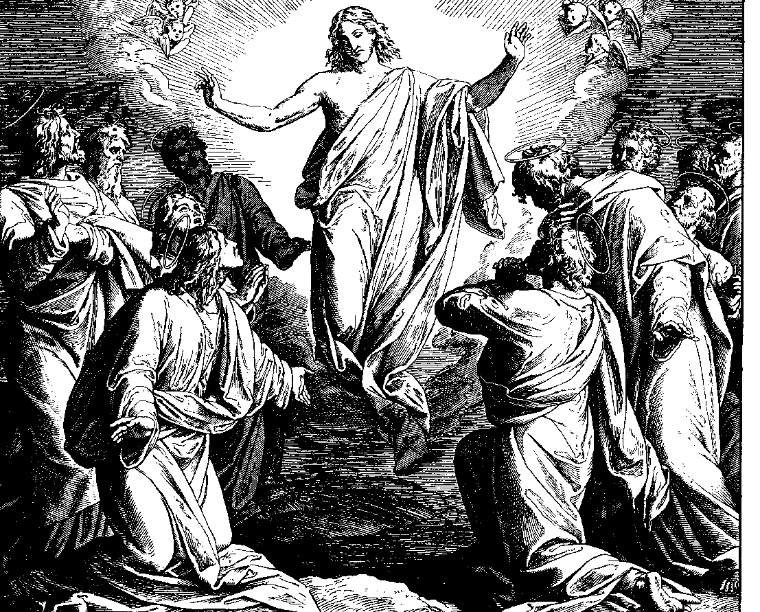 Woodcut for "Die Bibel in Bildern", 1860.